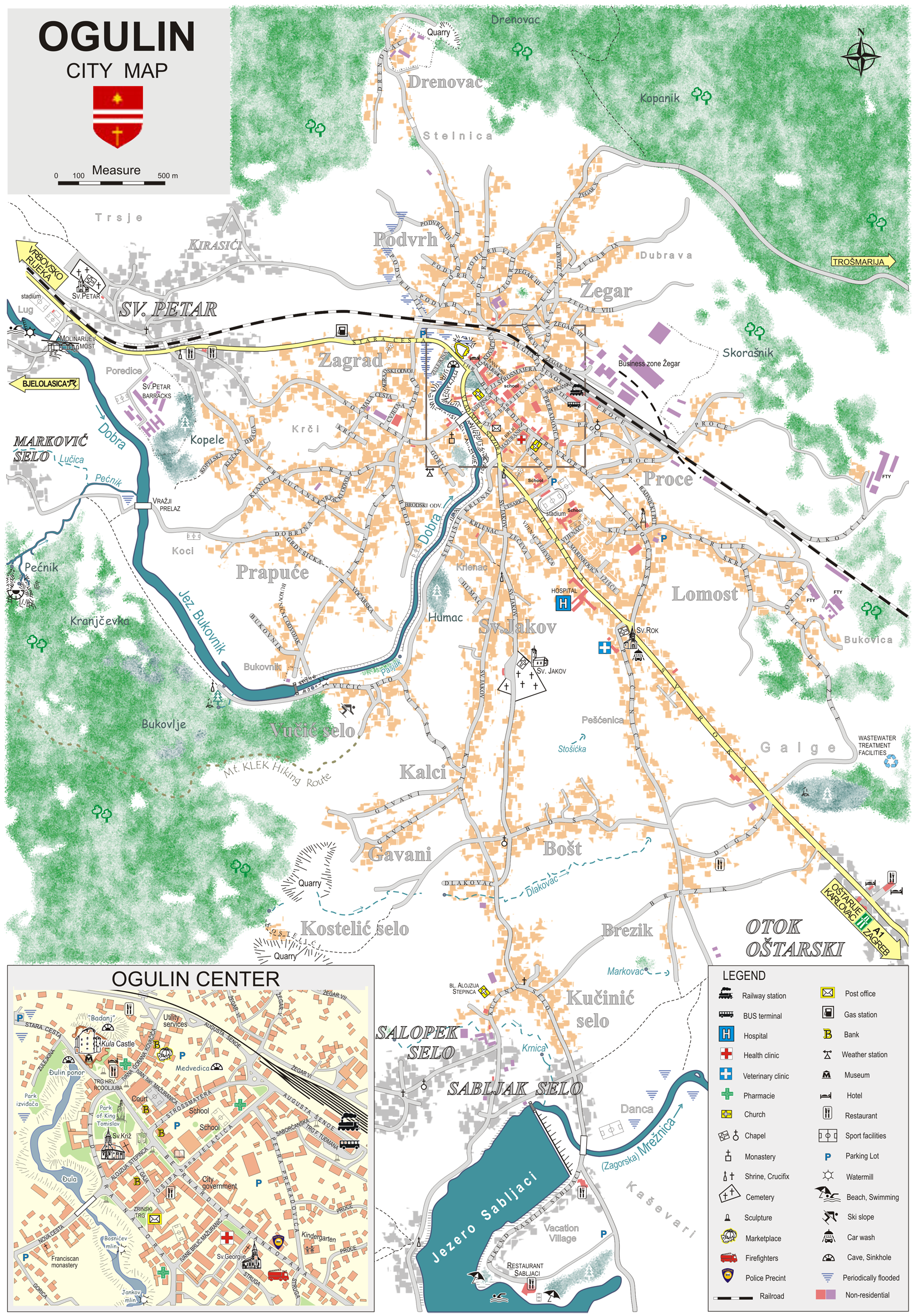 Tourist map of Ogulin to Sabljaci Lake with detailed street map of the town center and corresponding key (all in low resolution) page links Ogulin